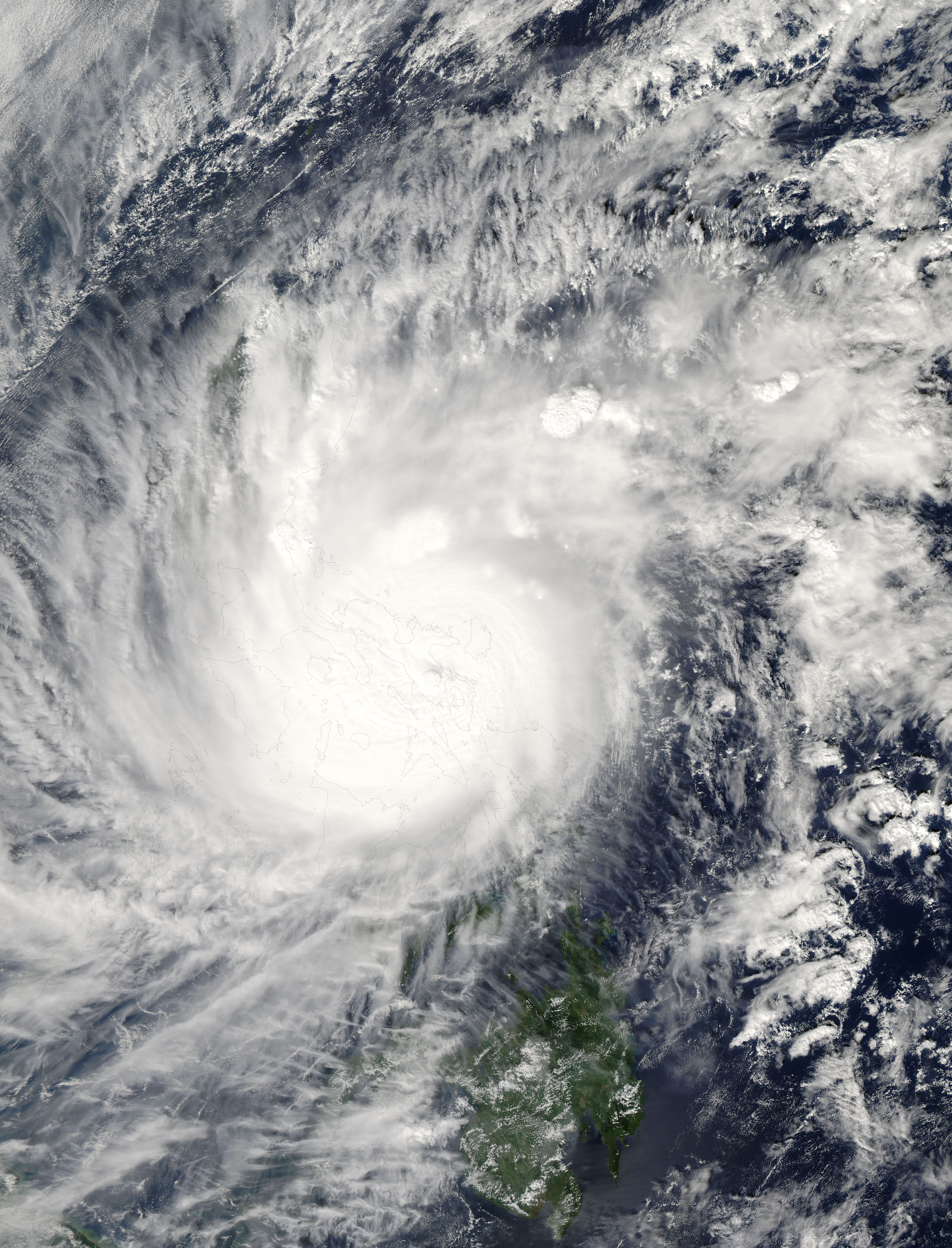 Super Typhoon Durian came ashore in the Philippines on November 30, 2006. According to BBC News Service, the typhoon was quite powerful, with sustained winds as high as 230 kilometers per hour (140 miles per hour). The storm’s name comes from a pungent fruit native to Southeast Asia. The twelfth typhoon of the season, Durian was projected as of November 30 to follow a track through the Philippines very similar to typhoons Xangsane, Cimaron, and Chebi, which all crossed the northern part of the island chain, bringing heavy rain and causing substantial damage. As with those other storms, Durian was expected to continue its eastward track and to cross the South China Sea, striking mainland Asia in Vietnam. This photo-like image was acquired by the Moderate Resolution Imaging Spectroradiometer (MODIS) on the Aqua satellite on November 30, 2006, at 1:00 p.m. local time (5:00 UTC). At this time, Typhoon Durian was well over the island chain, with the cloud-filled eye over the land and the spiral arms of clouds covering almost the entire northern Philippines. Sustained winds were around 230 kilometers/hour (140 mph), according to the University of Hawaii’s Tropical Storm Information Center. These speeds were the peak strength projected for the storm, which was predicted to lose power as it traveled over the islands. Forecasts for its fate as it crossed the South China Sea were uncertain, but since the typhoon season was waning, sea surface temperatures in the South China Sea were not optimal for storm intensification, and forecasters were expecting the typhoon to gradually lose power well before coming ashore in southern Vietnam. 260 people were missing in typhoon durian and 200 body bags were needed... The high-resolution image provided above is at MODIS’ full spatial resolution (level of detail) of 250 meters per pixel. The MODIS Rapid Response System provides this image at additional resolutions.